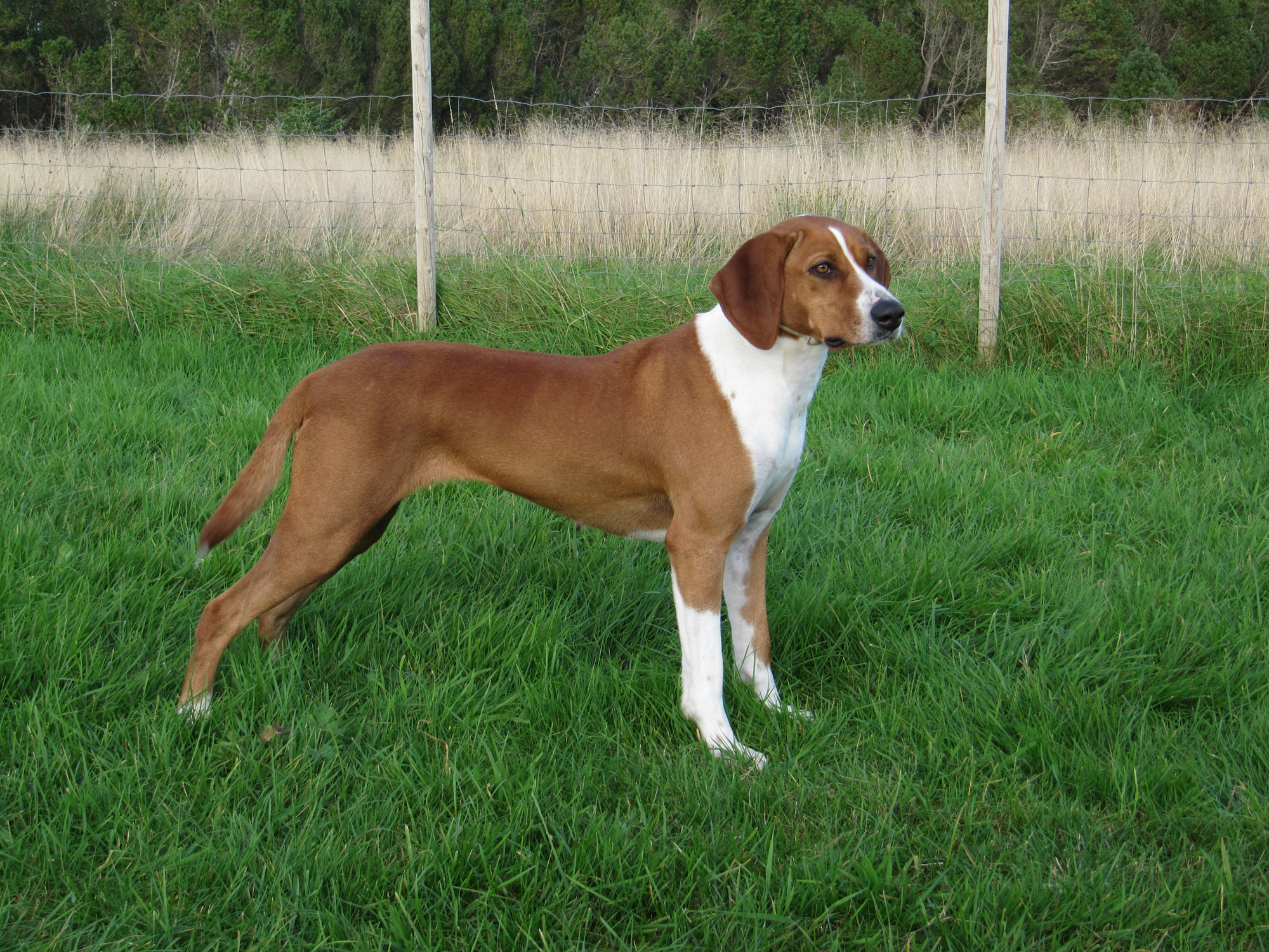 Norwegian dog breed hygenhound. Tosstjønna's Nala